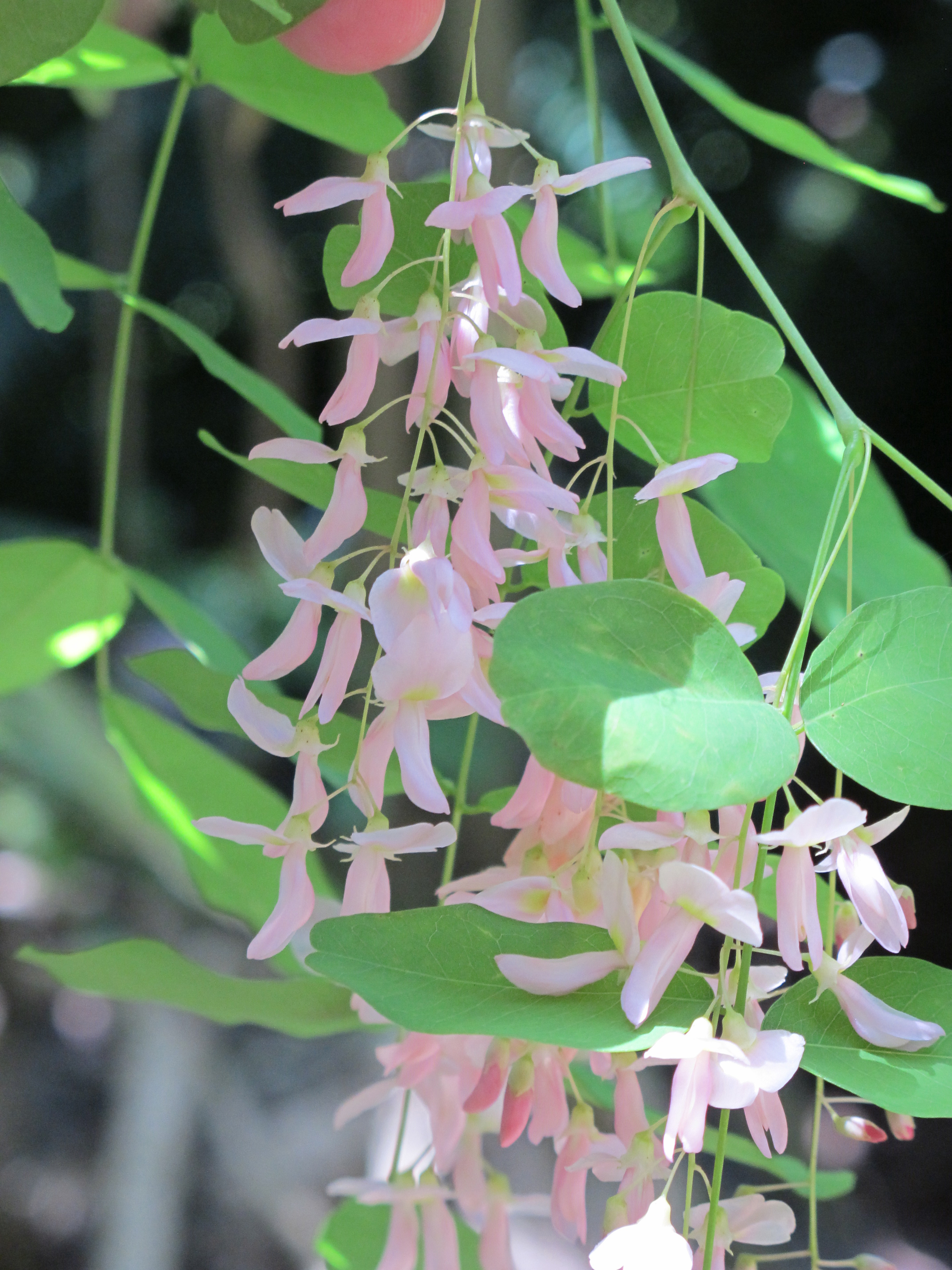 Lennea melanocarpa Fairchild Tropical Botanic Garden, Coral Gables, Miami, FL, USA.